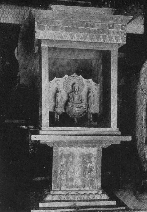 Tachibana Shrine, Horyuji, Ikaruga, Nara, Japan, published in 法隆寺図説 朝日新聞社 1942